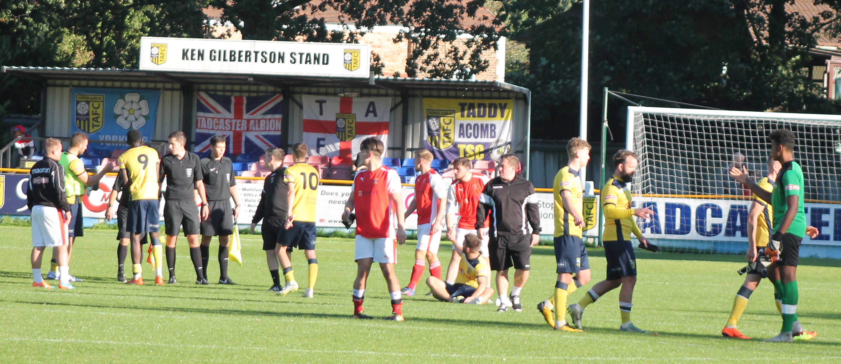 Tadcaster Alibion